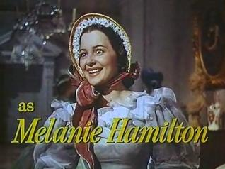 Cropped screenshot of Olivia de Havilland from the trailer for the film Gone with the Wind